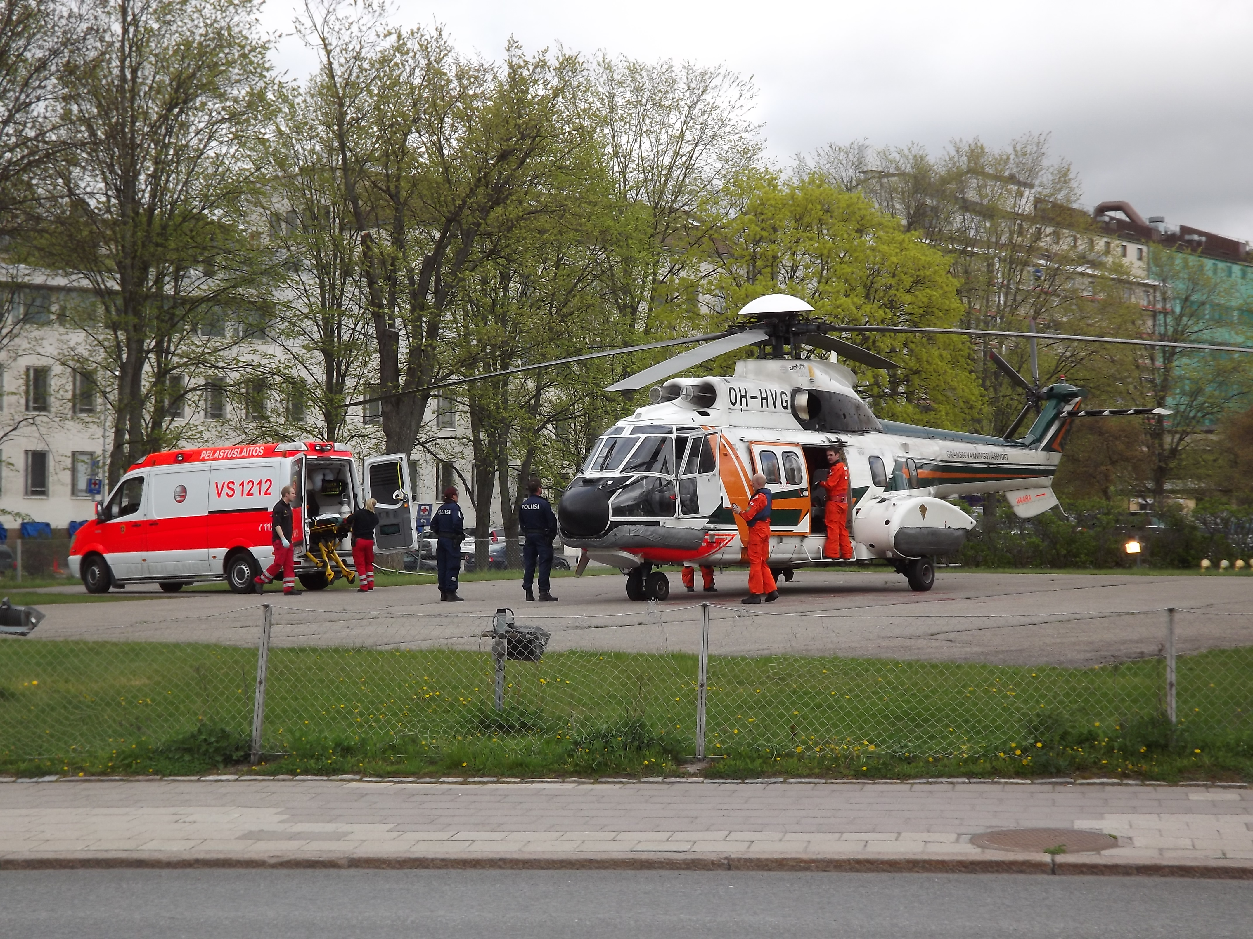 Preparing to transfer "patient" from helicopter (OH-HVG: Super Puma of the Boarder Guard) to ambulance at Turku University Hospital during an exercise. Policeman and -woman (who take care of traffic on the road during landing and take off) watching.